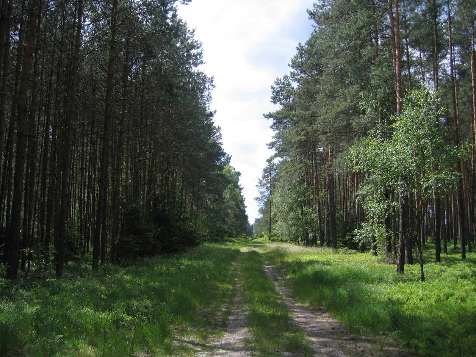 Typical woodland track through the Southern Heath or Südheide in Lower Saxony, Germany.